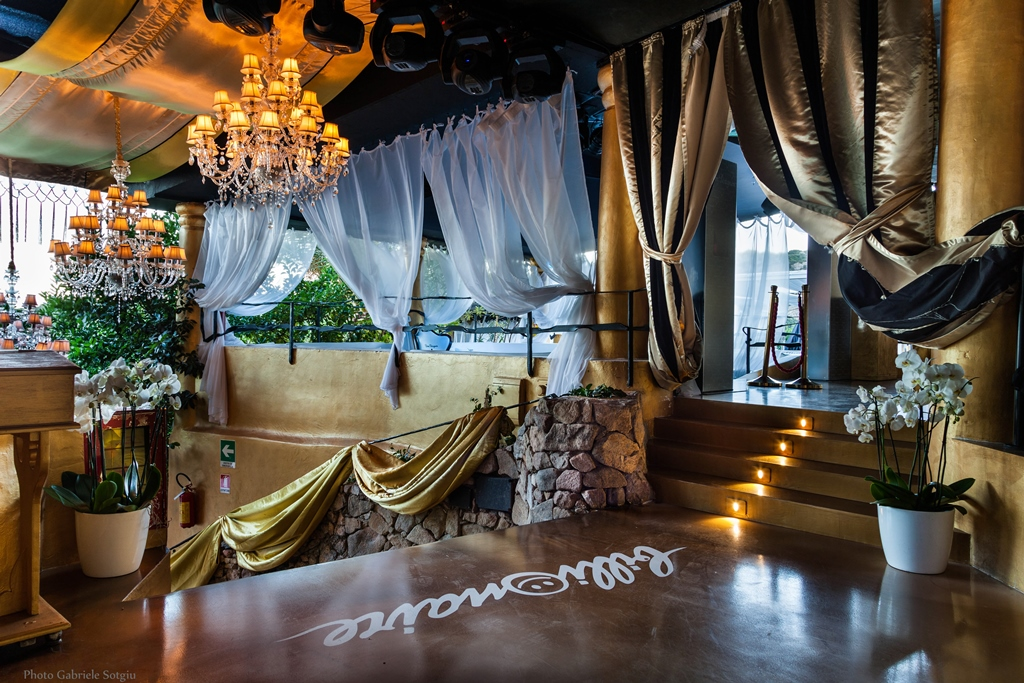 Inside the Billionaire club in Porto Cervo